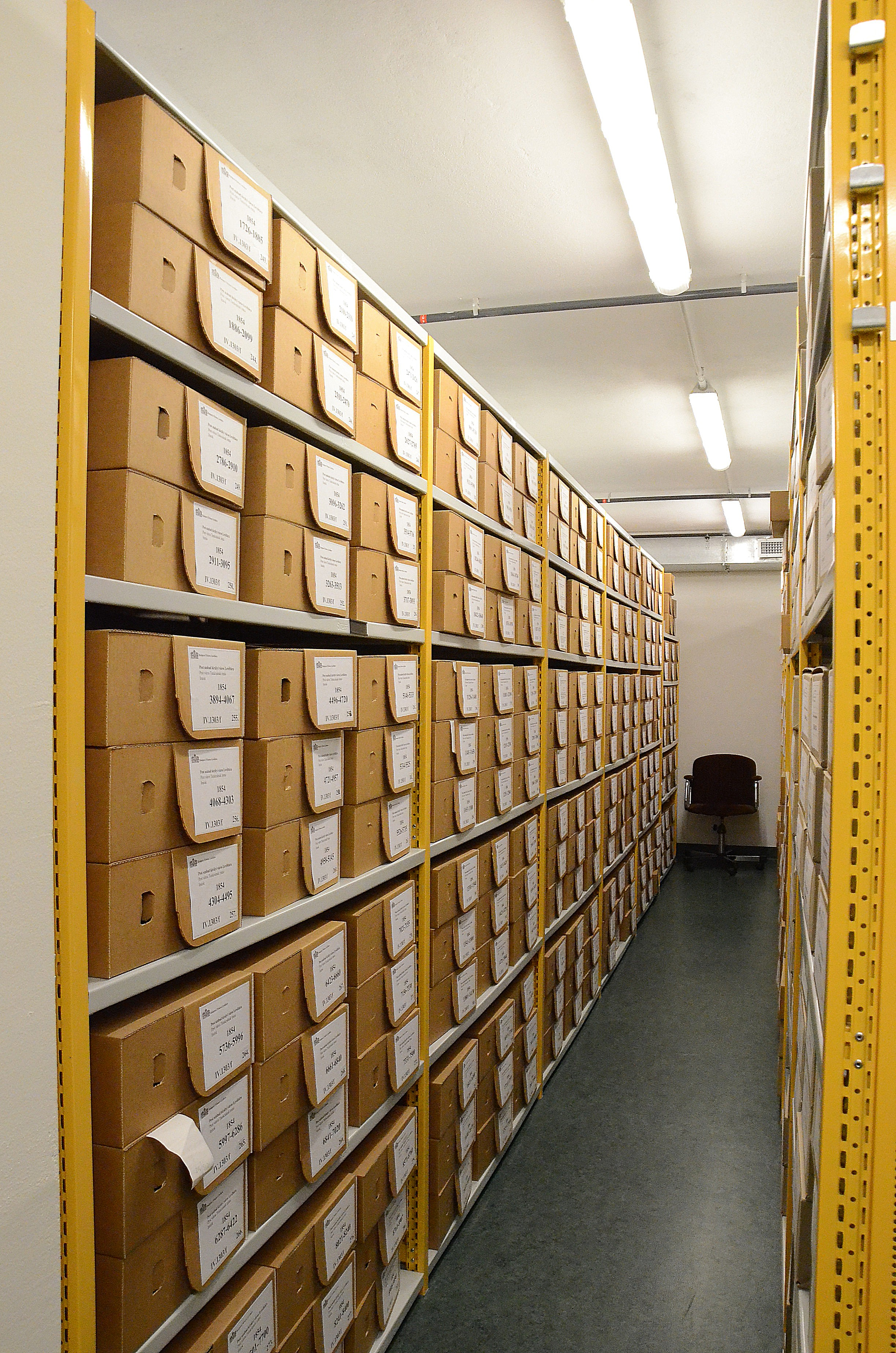 A storeroom of Budapest City Archives